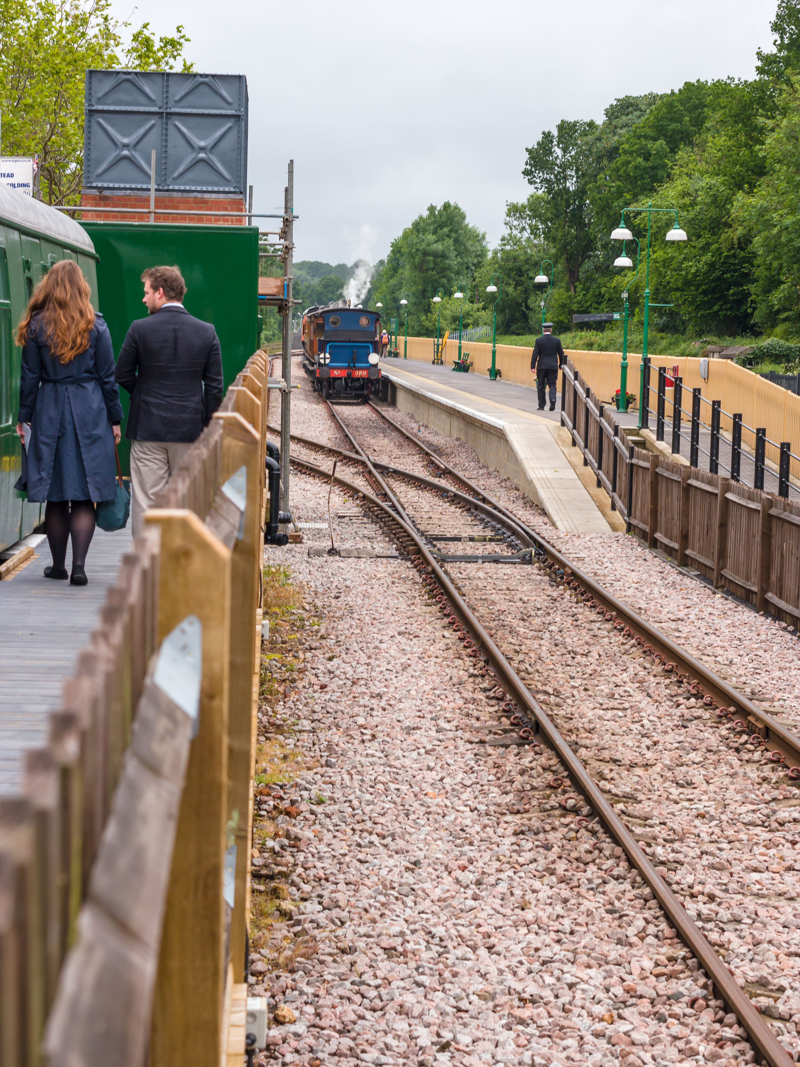 Bluebell Railway (during the 2013 Edwardian week-end)